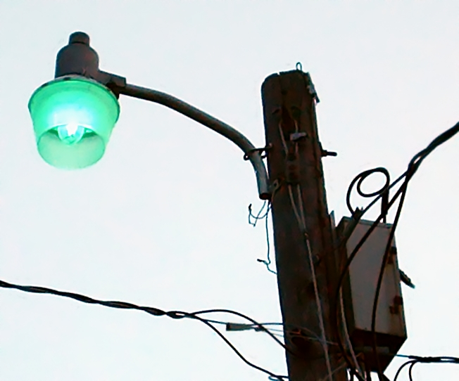 A pole-mounted yard light with a mercury-vapor lamp, approximately 15 seconds after starting. PLEASE NOTE: this image is not color-correct. Although mercury-vapor lamps do have a bluish tint to them, the tint is not quite this intense. FUTURE EDITORS: if anyone here has the ability to color-correct this image or if you have a different image that is more suitable than this one, please feel free to replace this image with a color-corrected version or suitable replacement.